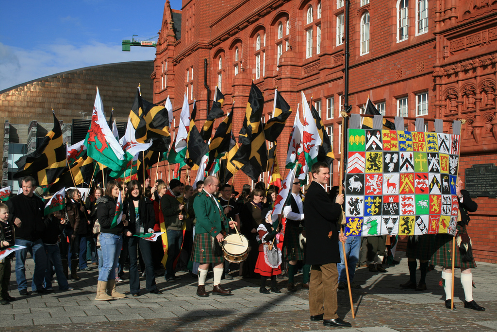 St David's Day celebrations, Cardiff Bay, 2008